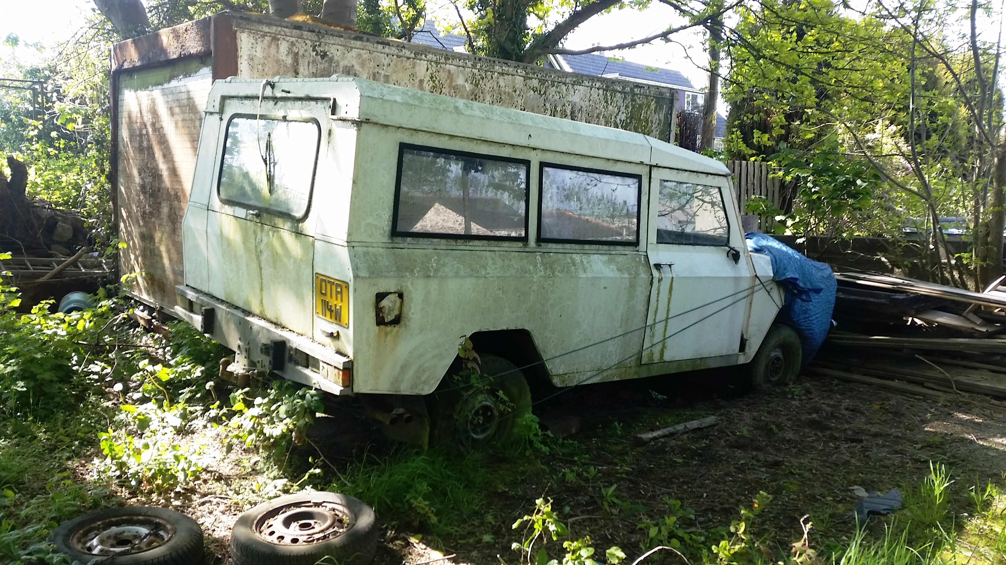 Land Master survivor. Former Devon and Cornwall Police vehicle.